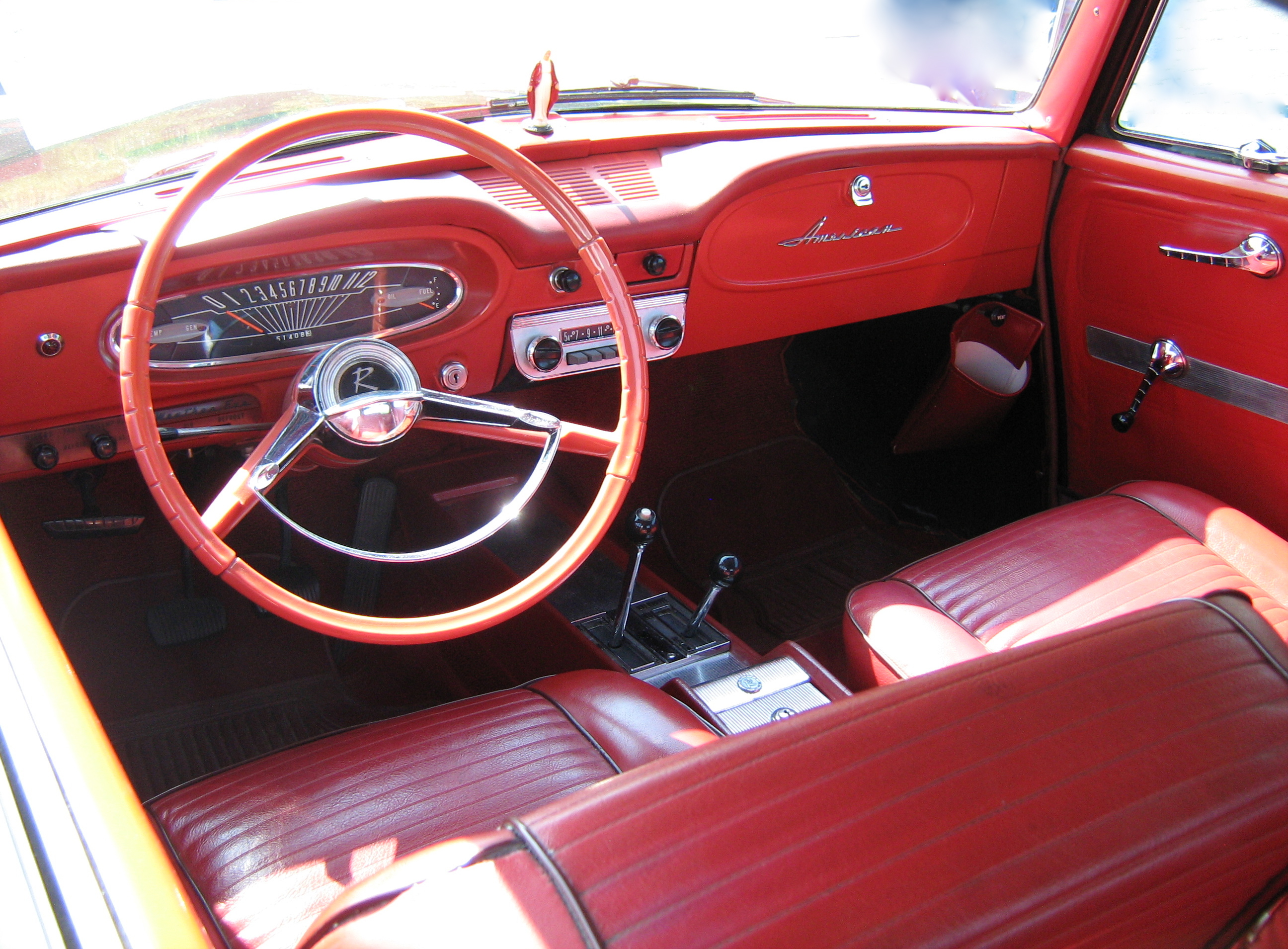 1963 Rambler American two-door hardtop, a compact car made by American Motors Corporation (AMC). This is the "top-of-the-line" 440-H version featuring a one-model-year- only design of a simulated "convertible" steel roof. This "sporty" model came with standard individually adjustable reclining seats and center console. This car has the optional "Twin-Stick" manual overdrive transmission. Note: This transmission has a bigger gap between 2nd and 3rd gears than did the regular three-speed transmissions with overdrive. This was so the transmission could be shifted as a five speed -- 1, 2, 2+OD, 3, and 3+OD. (Normal 3-speed manuals with OD shifted like a four-speed.) AMC's Twin-Stick shifter had the kick-down button on the three speed-lever to facilitate shifting it as a five-speed. Interior and dashboard design on this 2-door hardtop coupe.